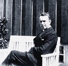 Christopher Lintrup Paus (1881–1963), British diplomat (consul in Oslo, Counsellor at the Embassy in Oslo), CBE (1920 New Year Honours)